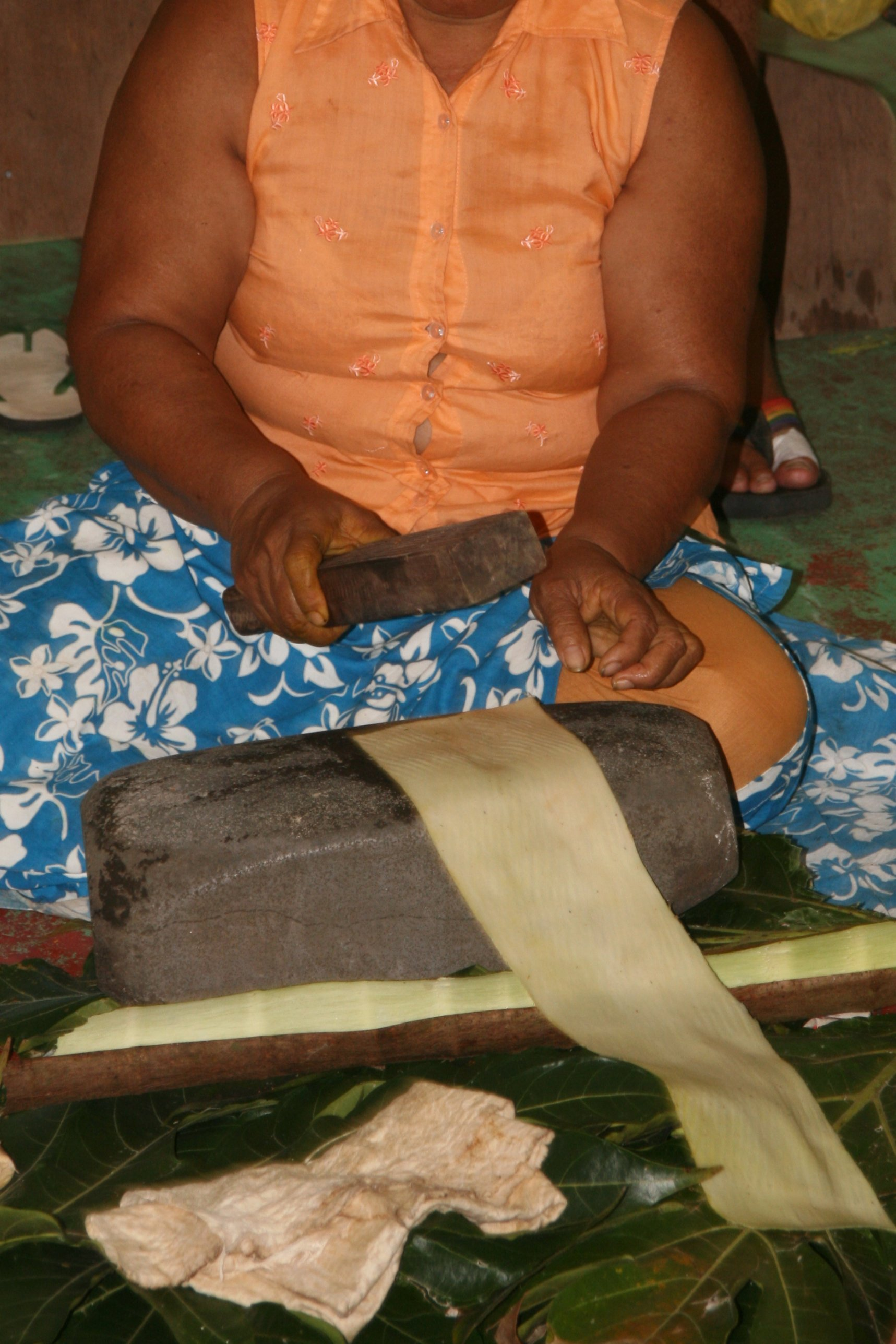 Making of Tapa cloth: enlarging and work of the bark. Village of Omoa, island of Fatu Iva, Marquesas islands, French Polynesia.